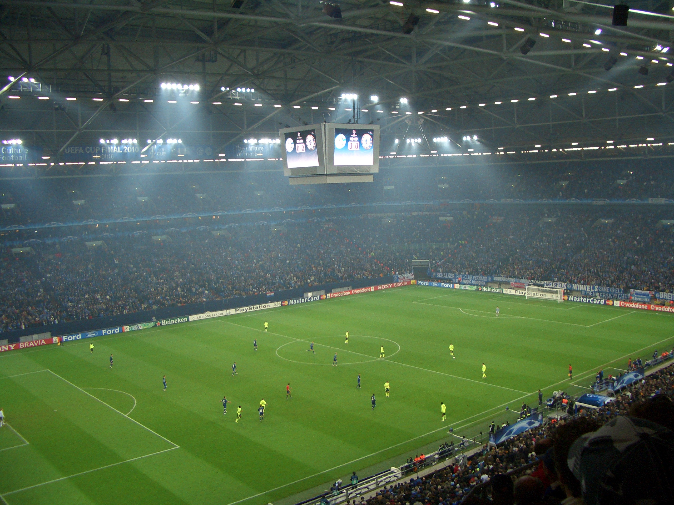 Champiosn League 2007-08 match between Schalke 04 and Chelsea FC, in the Veltins Arena. Result was 0-0. The photo shows the match during the game.